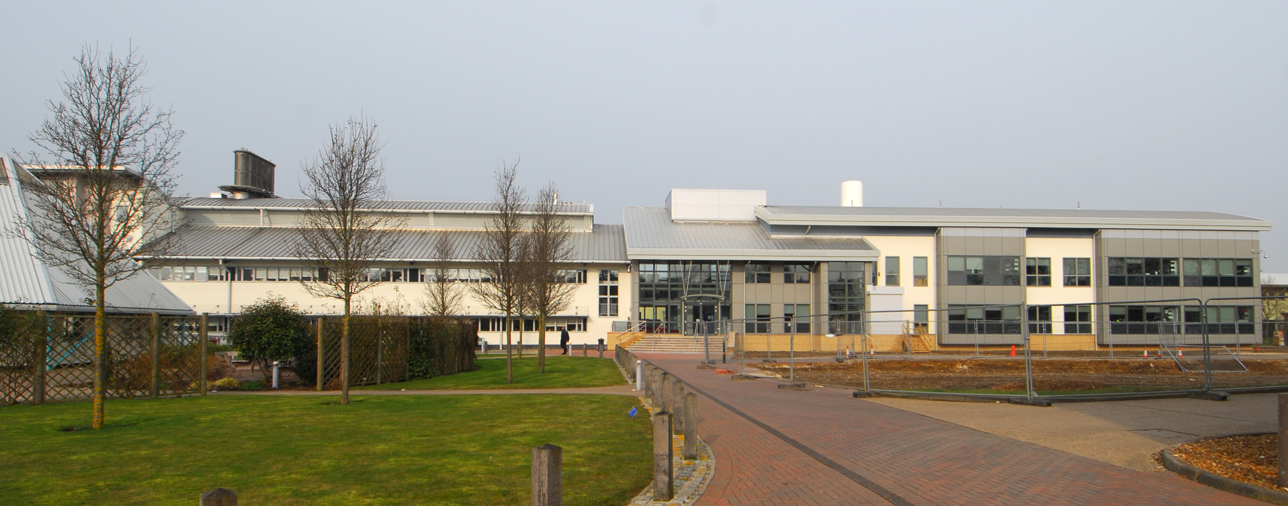 View of the Babraham Institute research buildings (2013)